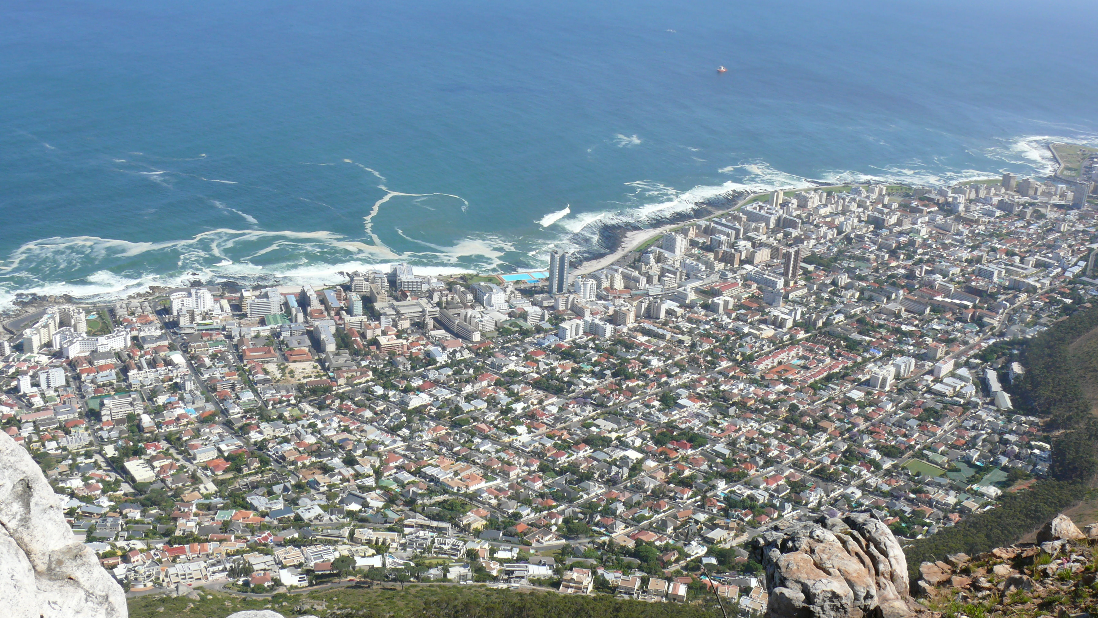 Sea Point - From Lions Head